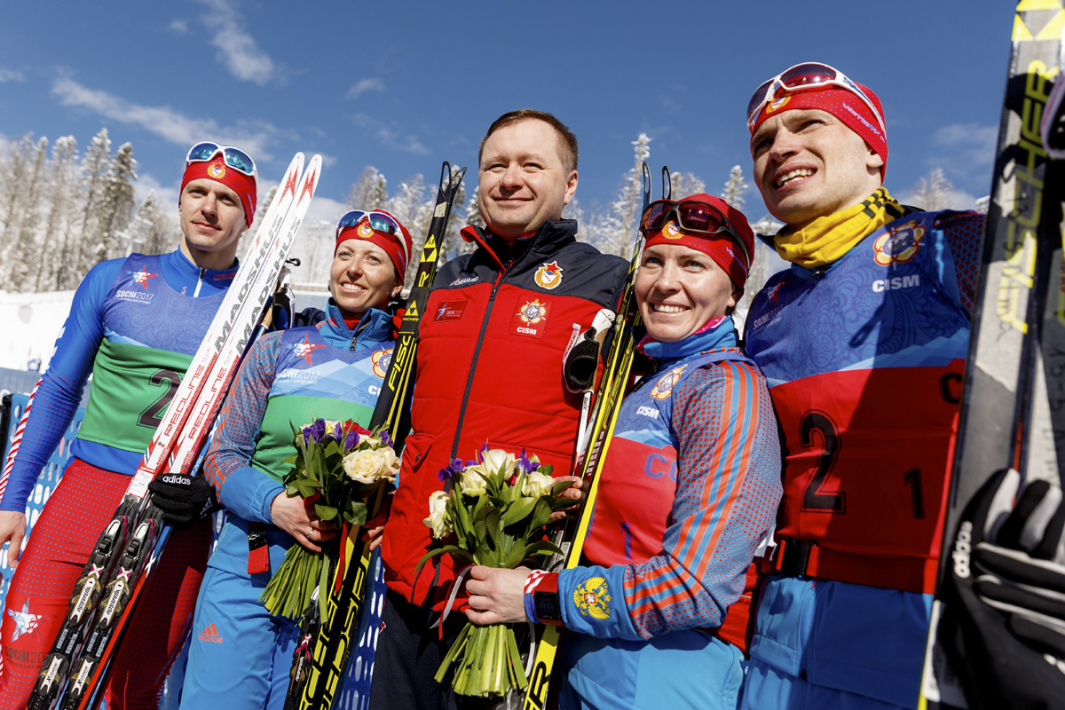 Cross-country skiing at the 2017 Winter Military World Games